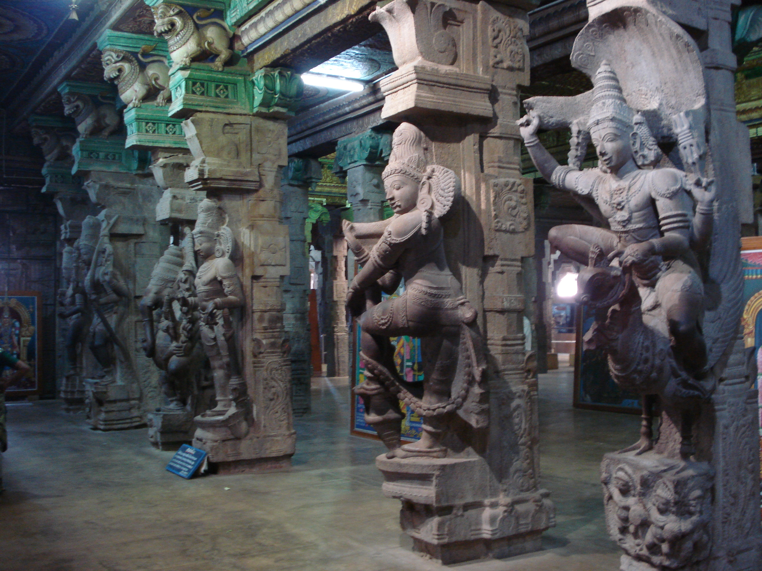 This media file is uploaded with Malayalam loves Wikimedia event.